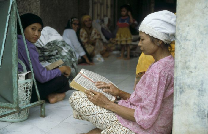 A muslim woman reading the koran in the mosque on the first day of Ramadan